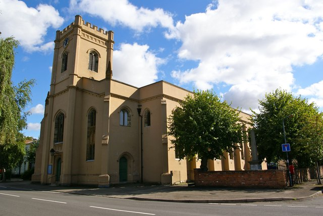 St Mary's Church, Leamington Spa This church has been considerably refurbished in recent years.